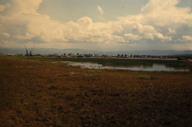 View of Ust Barguzin from east.